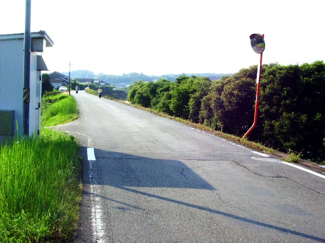 This photo is a view of Japanese Kyoto prefecture route 241 (Mukaijima-Uji line), Kyoto city section. This route connects 2 bridges on Uji river, between Kangetsukyo and Ujibashi. Kyoto city section has no center line, its width is variable narrow to wide. Almost this section has no guradrail, other side touches people's house entrance. If you drive this section, be careful.